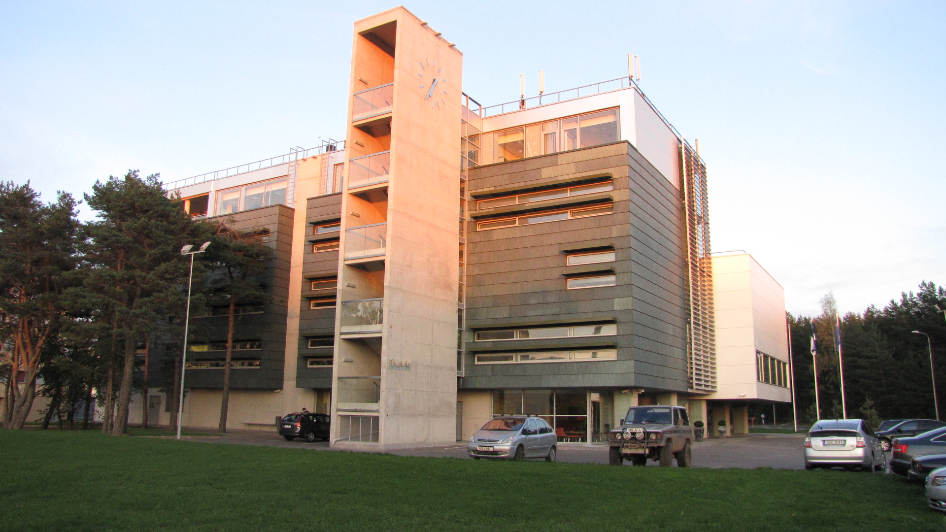 View on Estonian IT College from the west side of the building